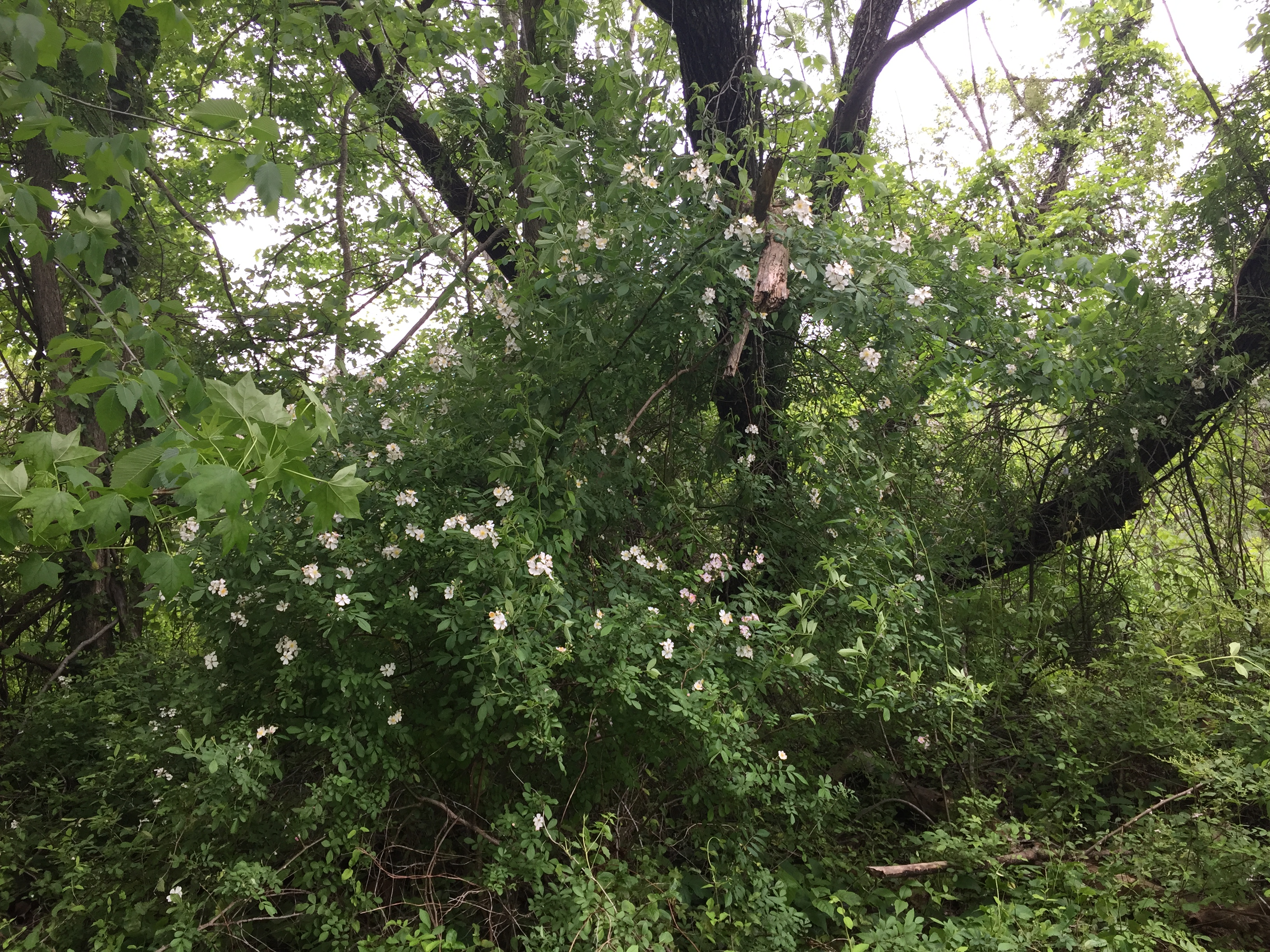 Multiflora rose blooming along Maddox Road (Maryland State Route 238) near Budds Creek Road (Maryland State Route 234) in Chaptico, St. Mary's County, Maryland